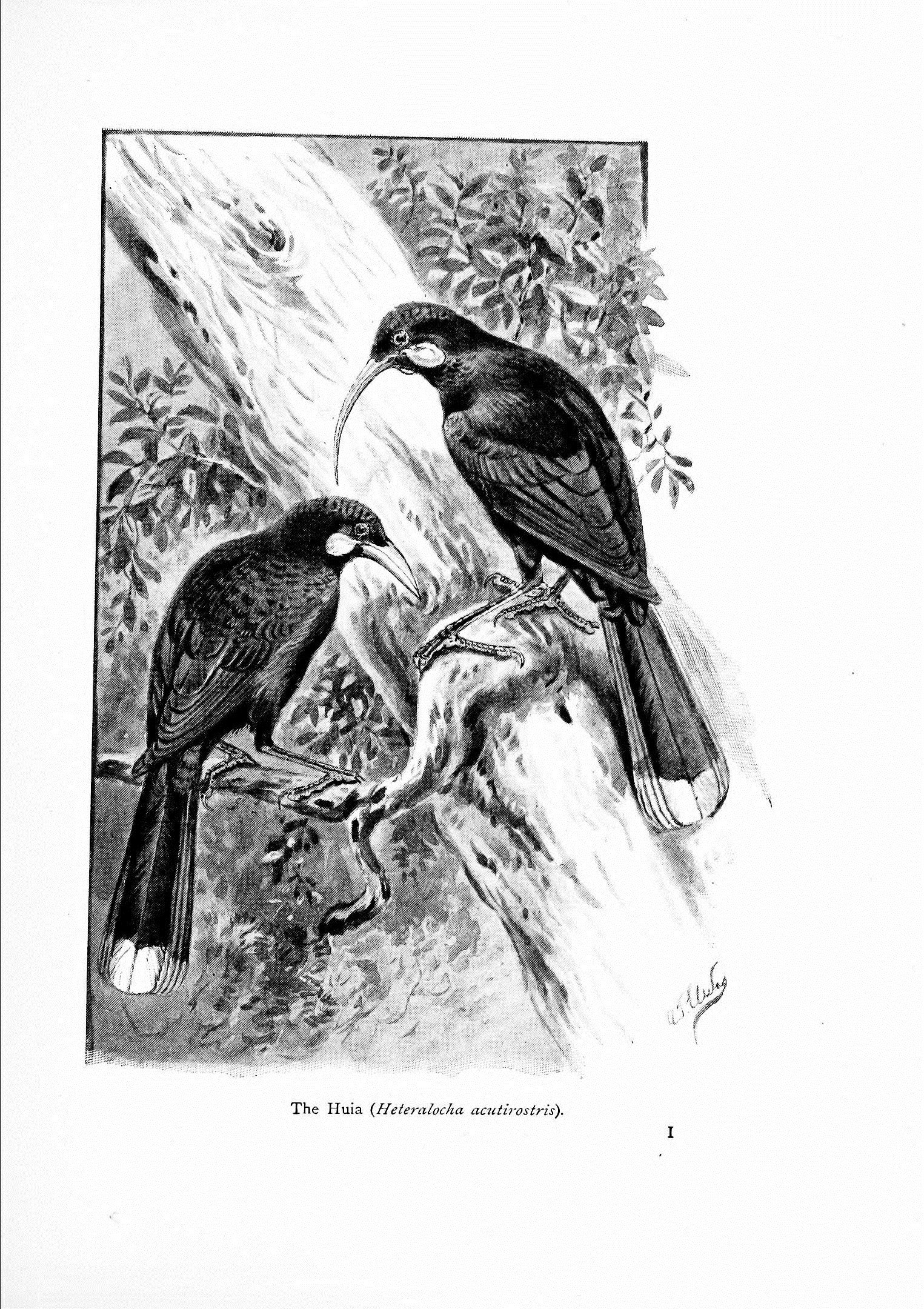 An illustration of a male and female Huia (Heteralocha acutirostris) drawn by Alfred Thomas Elwes from the book Wonders of the bird world written by Richard Bowdler Sharpe.